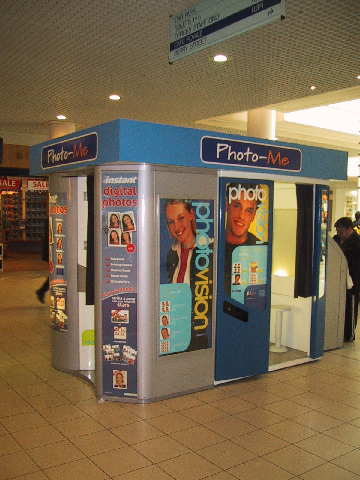 Photo booth installation in Castle Court shopping Centre, N Ireland. 2003.